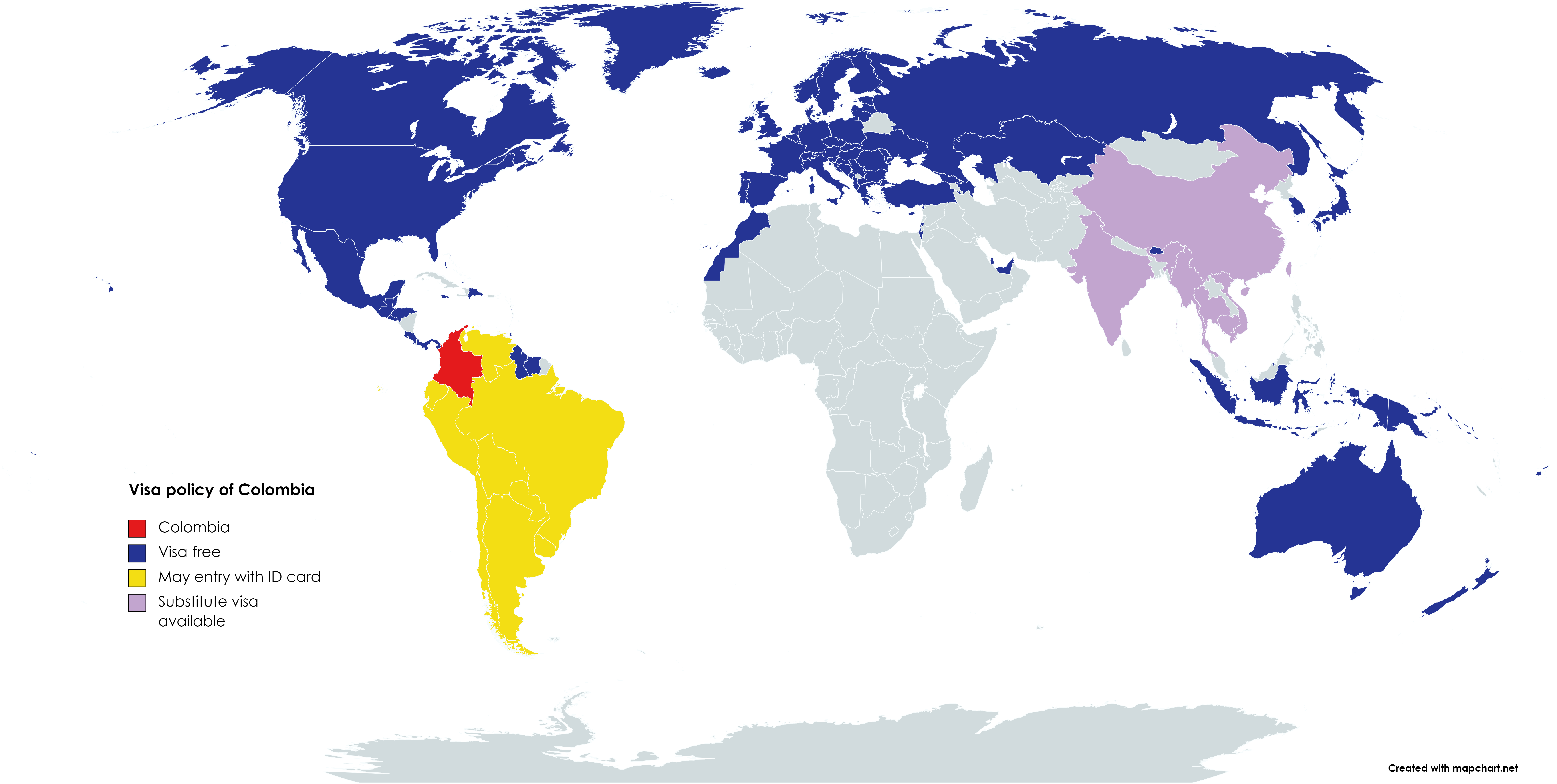 map showing visa policy of Colombia Colombia Visa-free Entry with ID card only possible